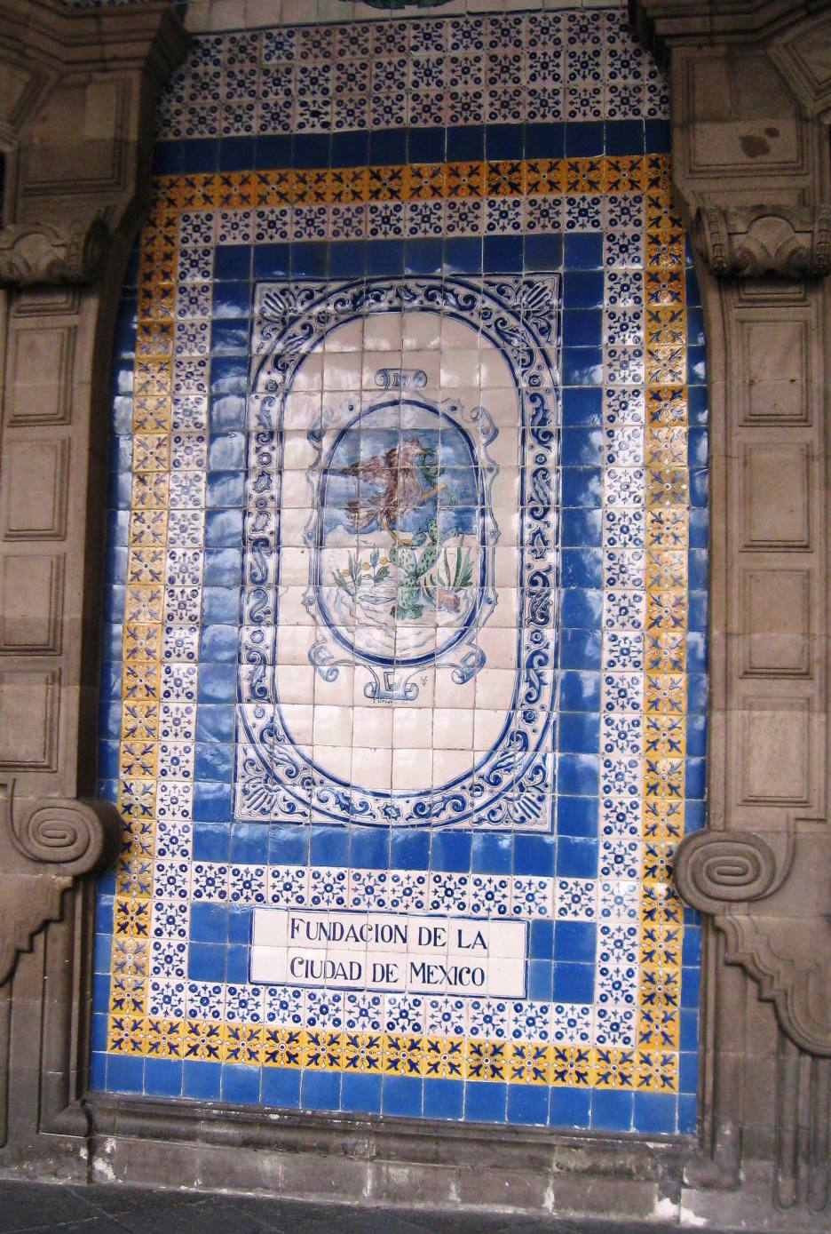 Tile mosaic on the older Federal District building in Mexico City celebrating the city's founding